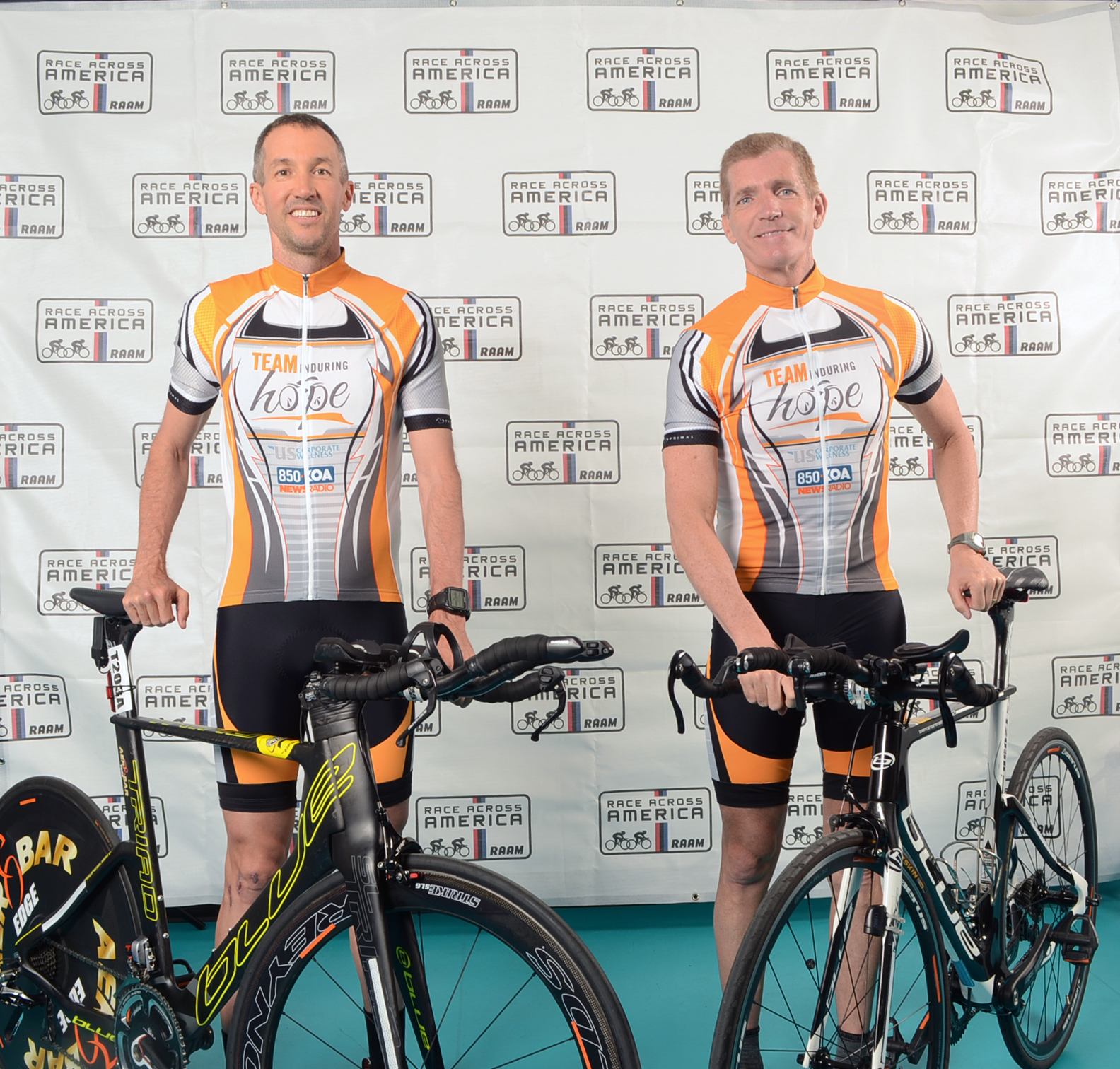 Race Across America RM15_203_Brad Cooper Jerry Schemmel